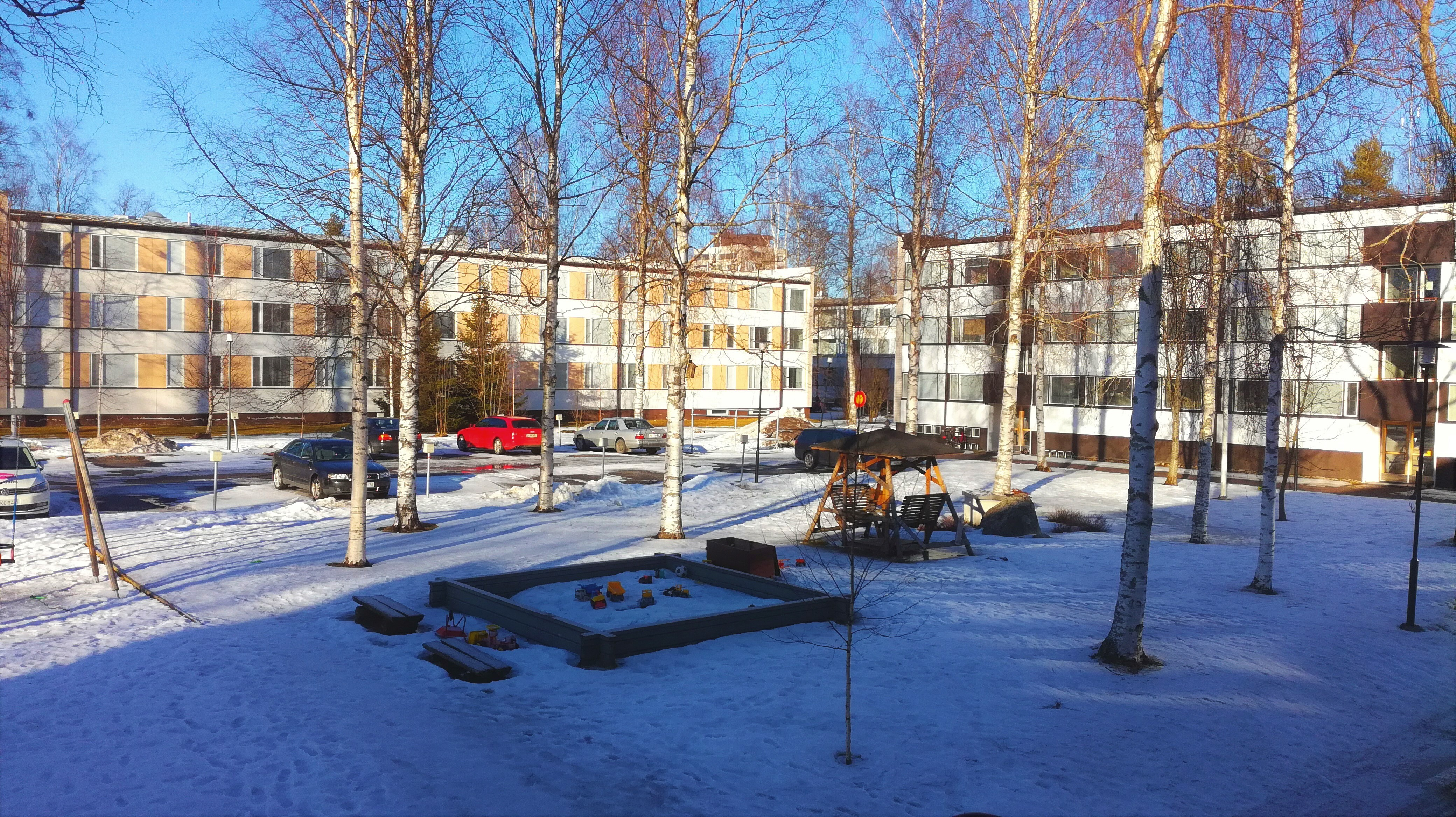 Apartment buildings built in the 1960s in Lohikoski, Jyväskylä, Finland.